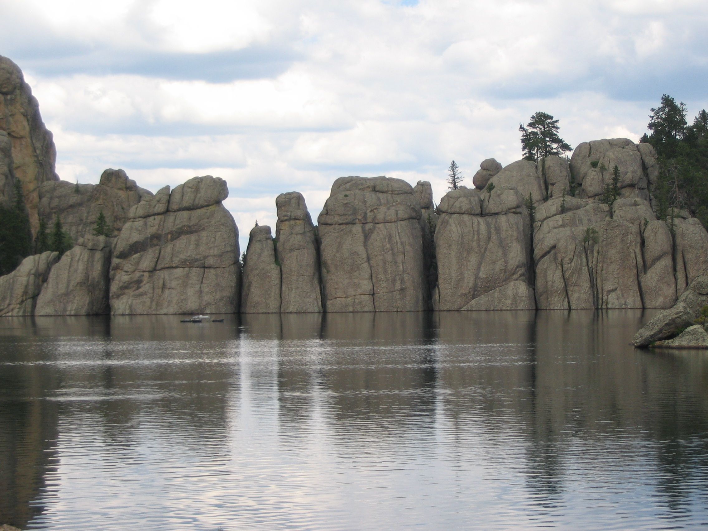 Photo 2 Custer State Park.